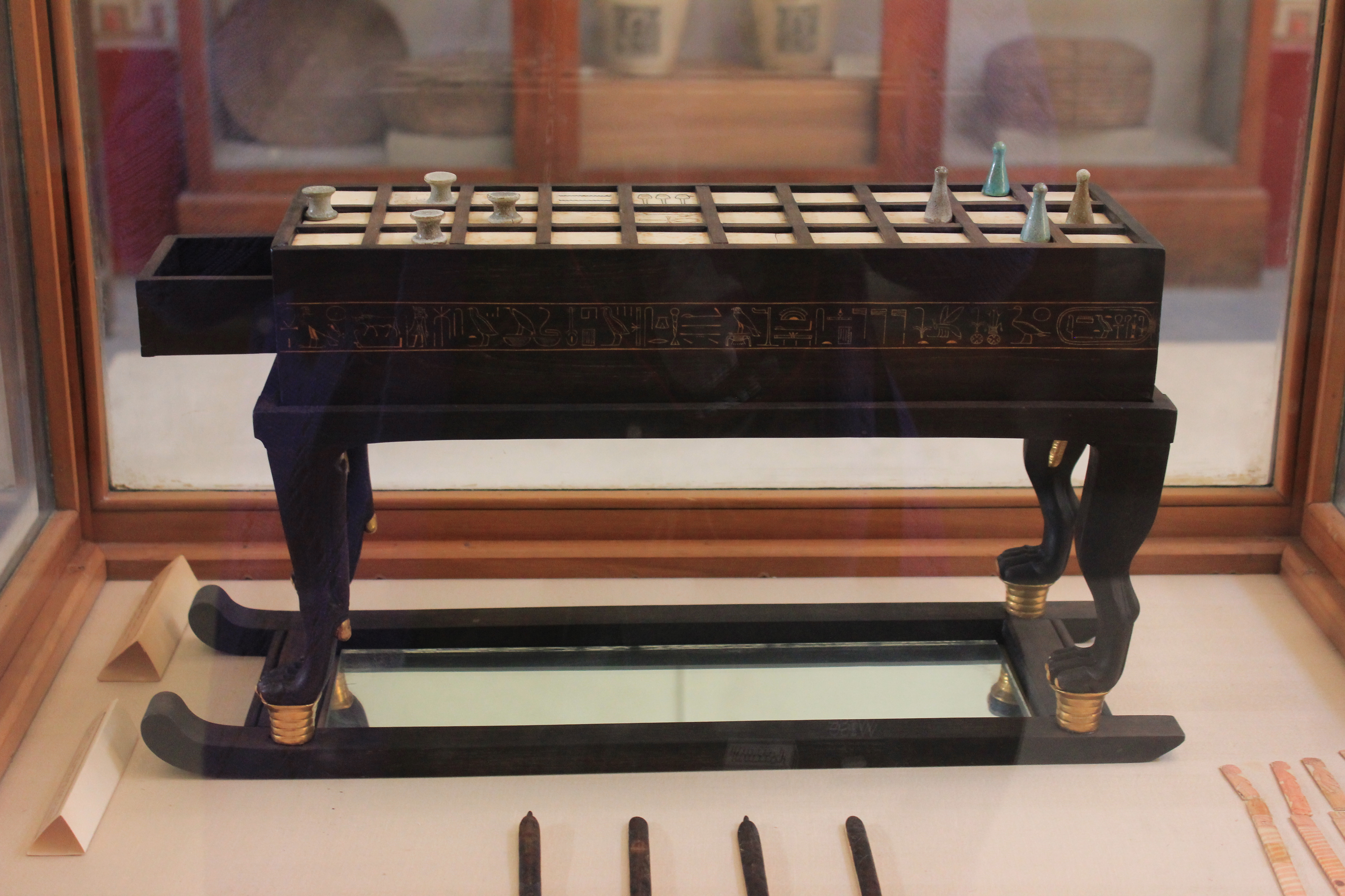 Egyptian Museum in Cairo, Egypt.)